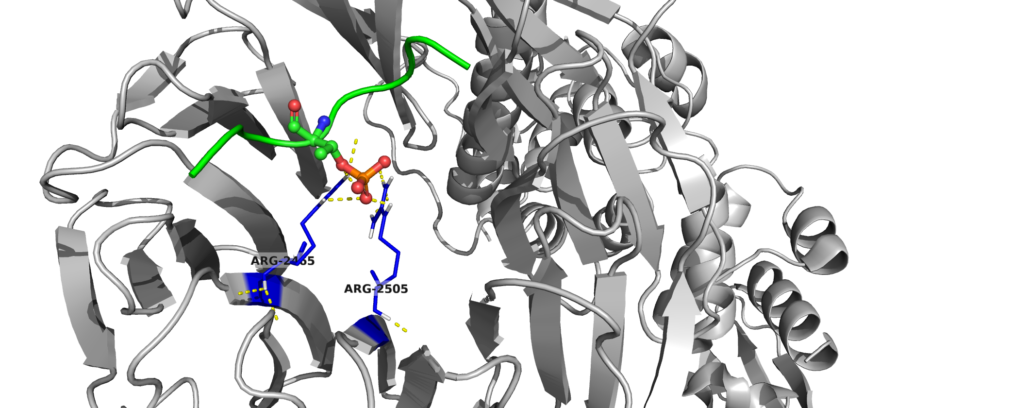 A phosphorylated degron (green) is stabilized by H-bonding of SCFFBW7 ubiquitin ligase residues (blue) to oxygens of it’s phosphate (red). PDB entry 2ovr